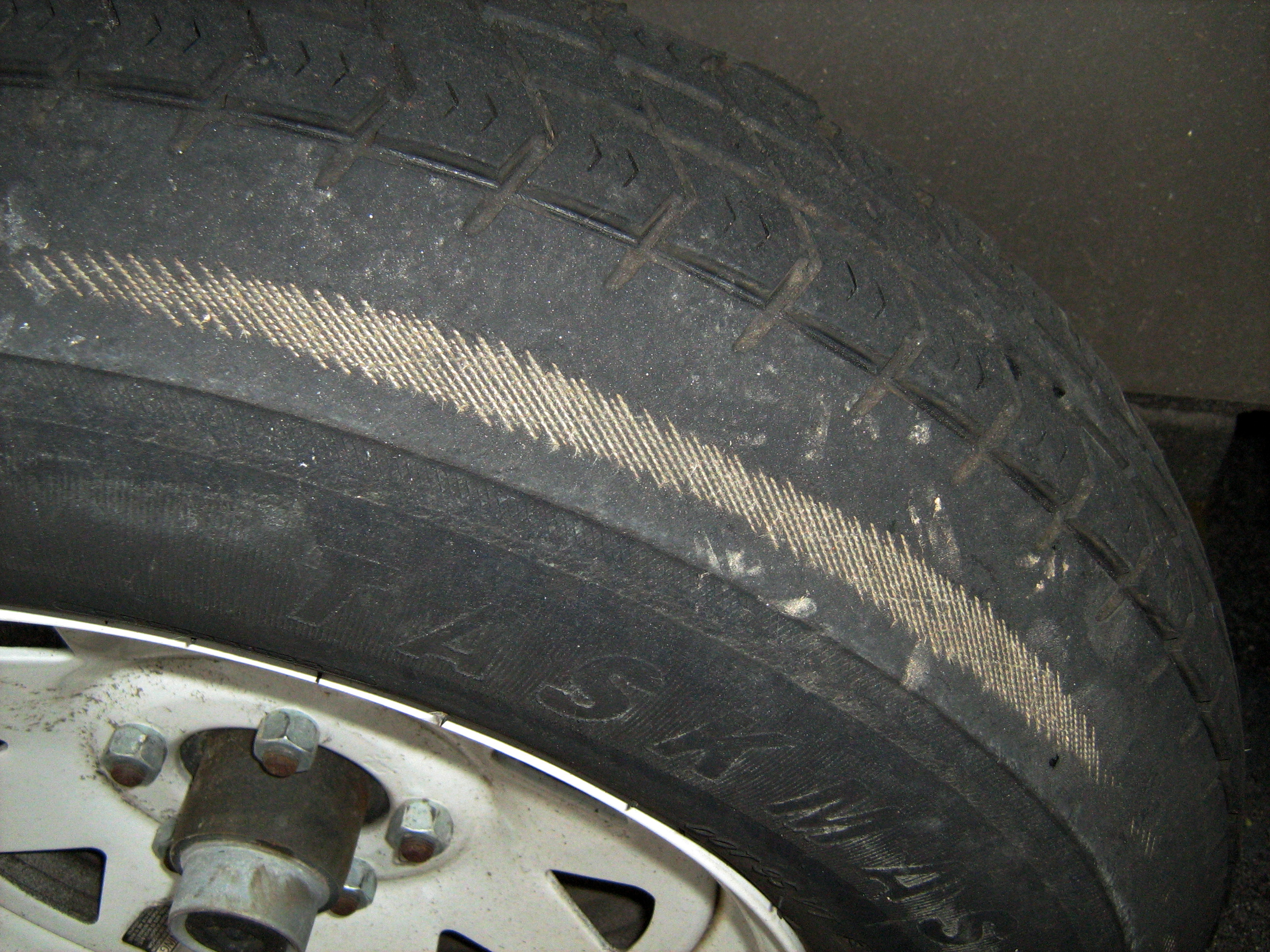 Tire showing wear in its sidewall (down to the cords) due to severe under inflation. Mounted on a utility trailer wheel.